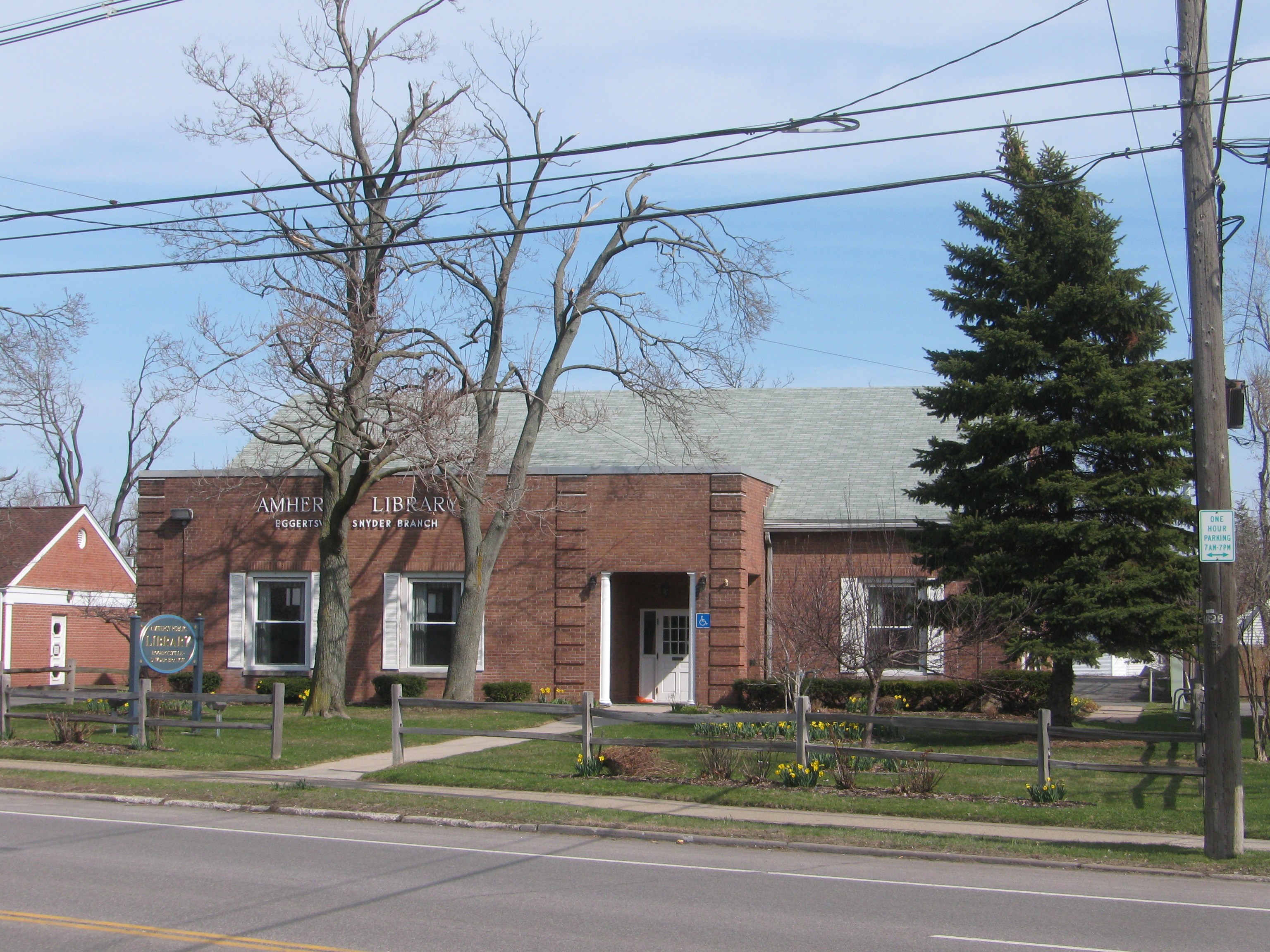 The Eggerstsville-Snyder Public Library in the Snyder, New York business district